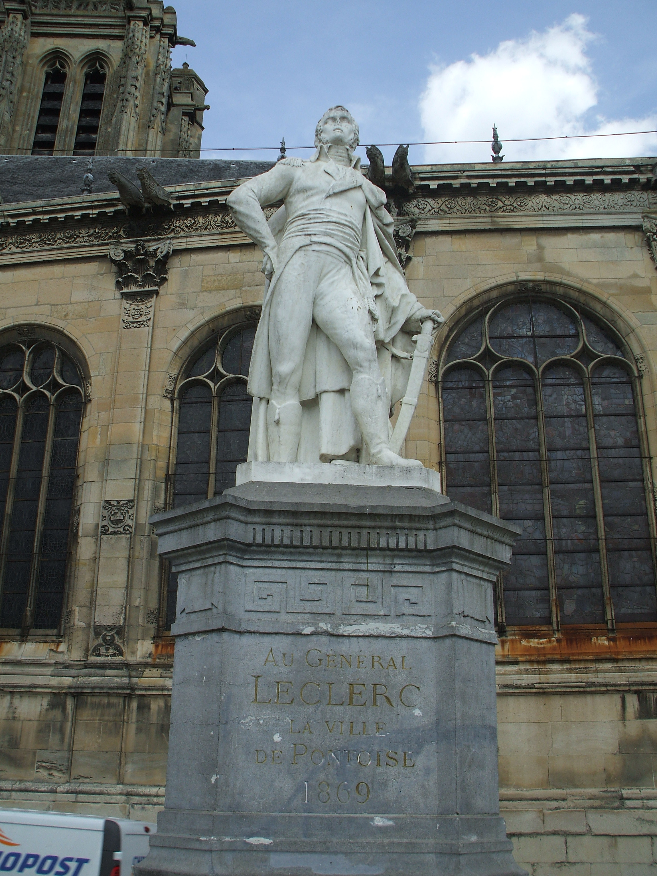 Charles Victor Emmanuel Leclerc à pontoise